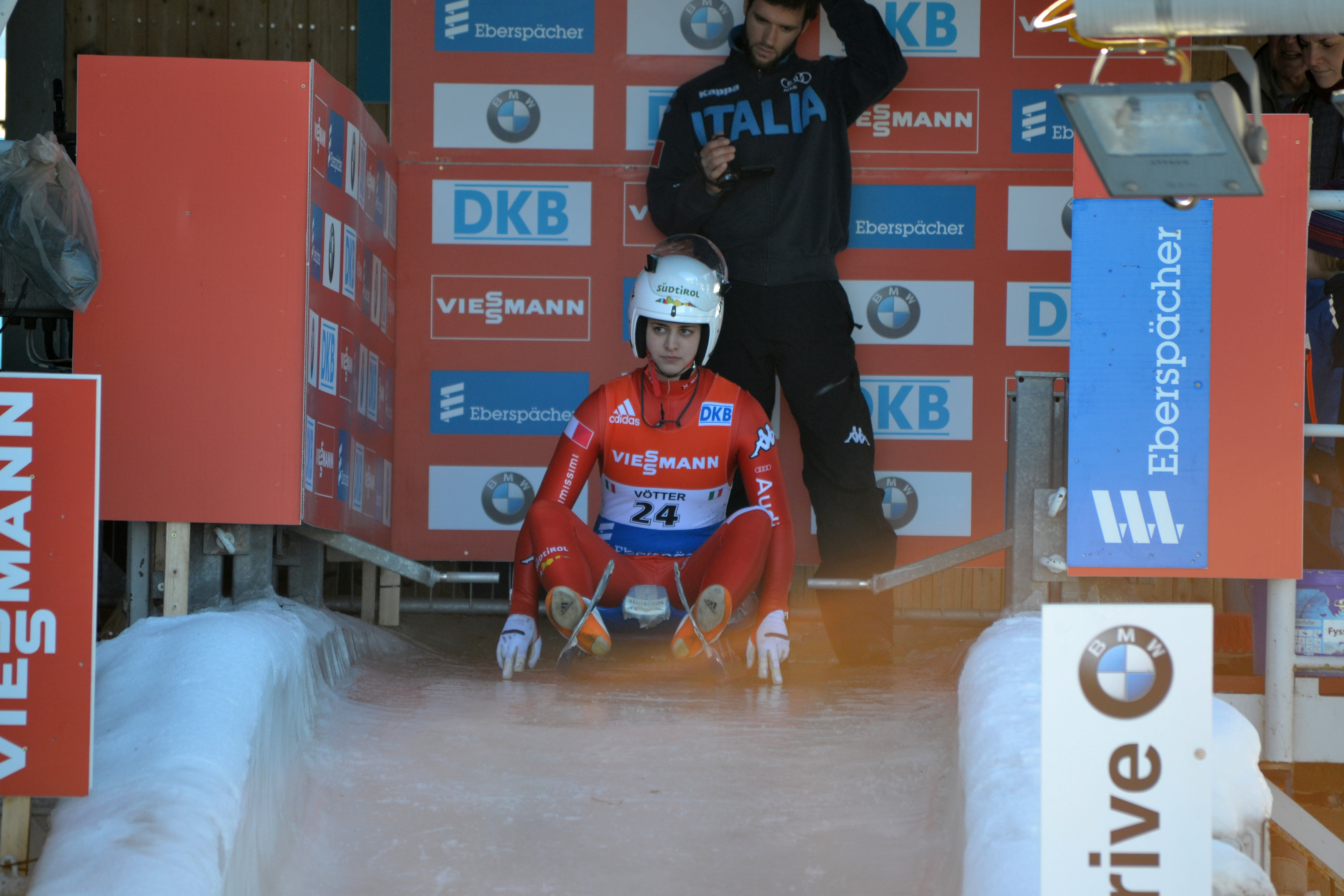 Luge world cup race season 2014/15 in Altenberg/Germany, 19th to 22nd Februar 2015. Day 1: training.